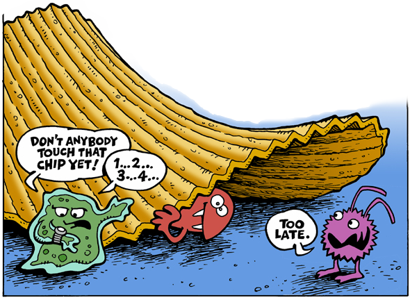 Five-second rule – crop from Greg Williams' WikiWorld.